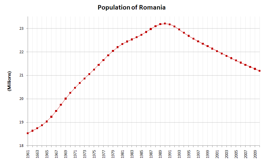 Romania's population (1961-2010). Y-axis : Number of inhabitants in millions.